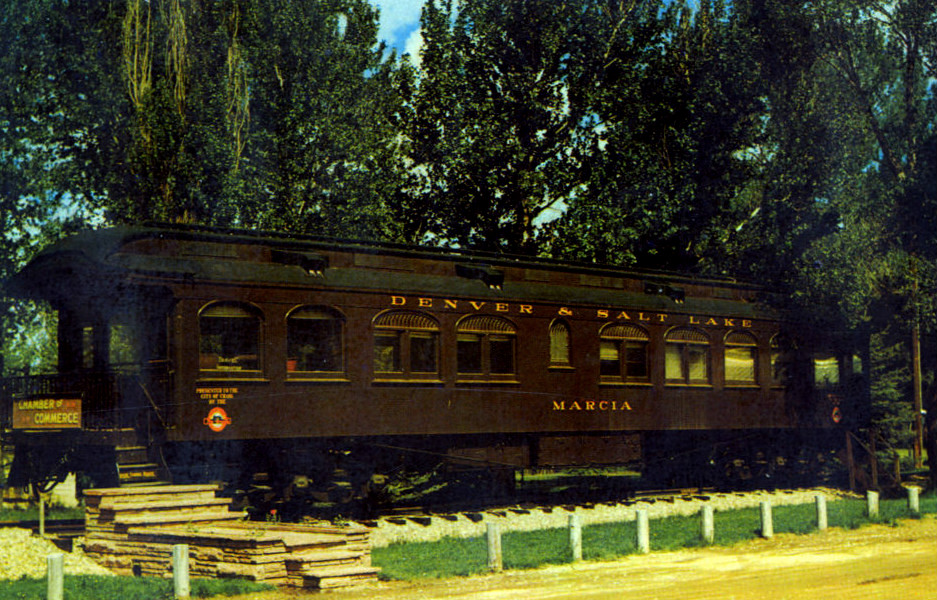 Postcard photo of the private rail car of industrialist David Moffat. Built by Pullman in 1909, it was named for his daughter, Marcia. The car is permamently based in Craig, Colorado and was a gift to the town by the Denver and Salt Lake Railway's successor company, Denver and Rio Grande Western Railroad.